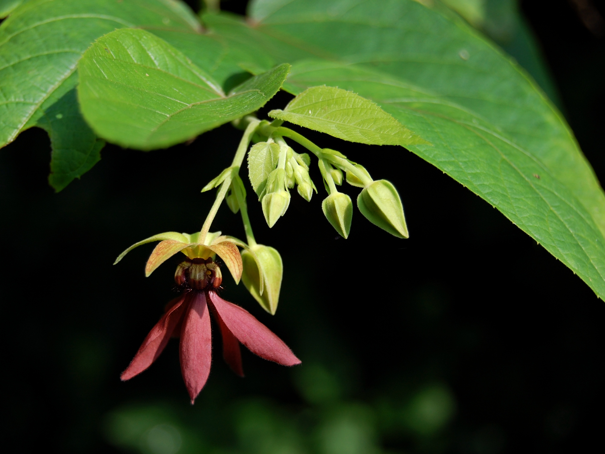 Abroma augusta; flowering cymes. From Bogor, West Java, Indonesia.